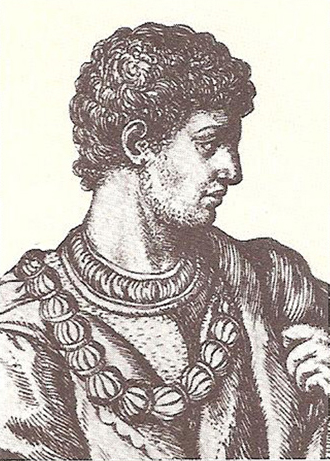 Nicolo II d'Este